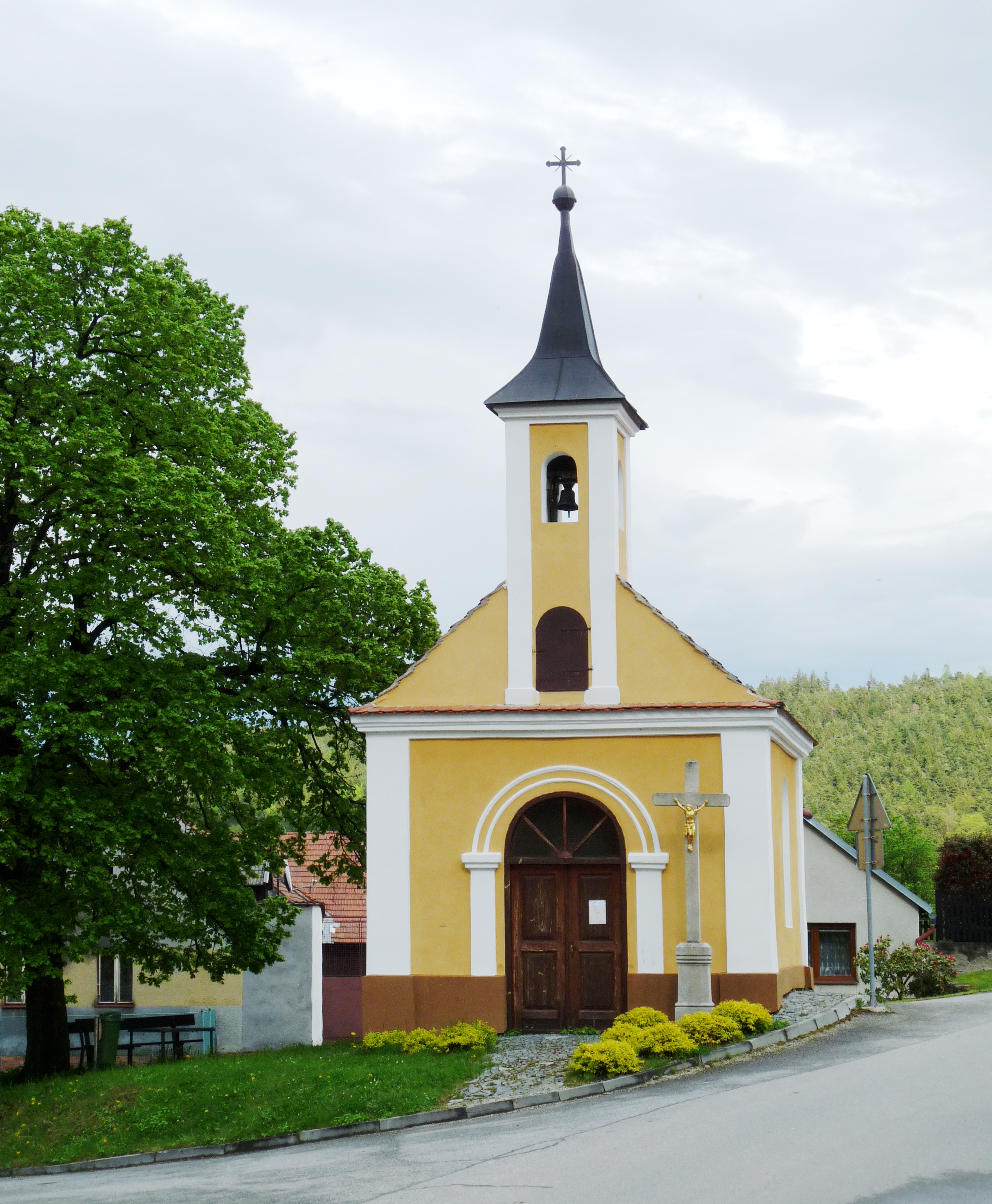 Chapel in the village of Kahov, Prachatice District, South Bohemian Region, Czech Republic.